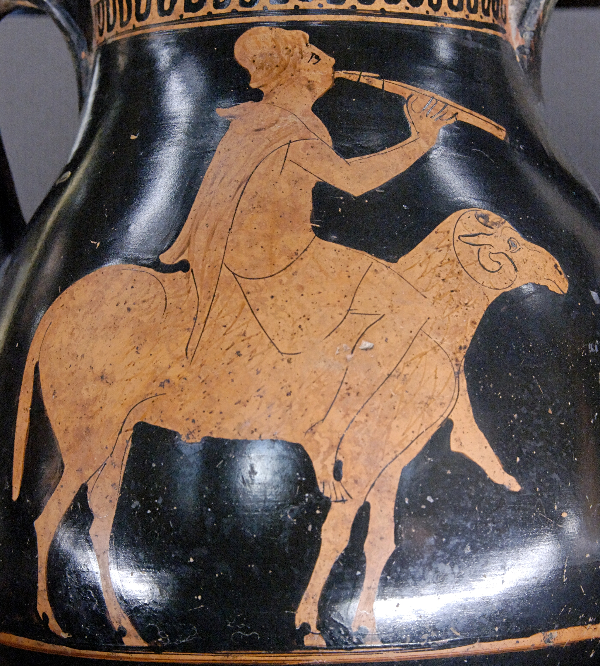 Shepherd riding a ram and playing the aulos. Side A from an Attic black-figure pelike, ca. 470 BC. From Athens.